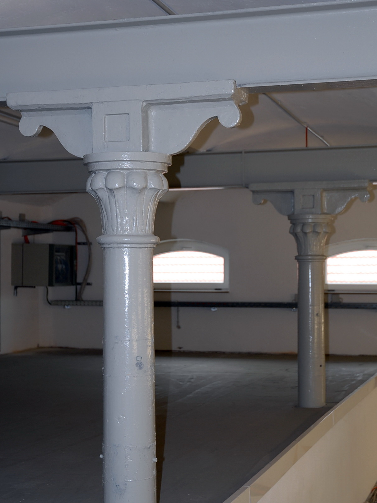 The pillars of The Maltese's Stock. Columns made of cast iron.